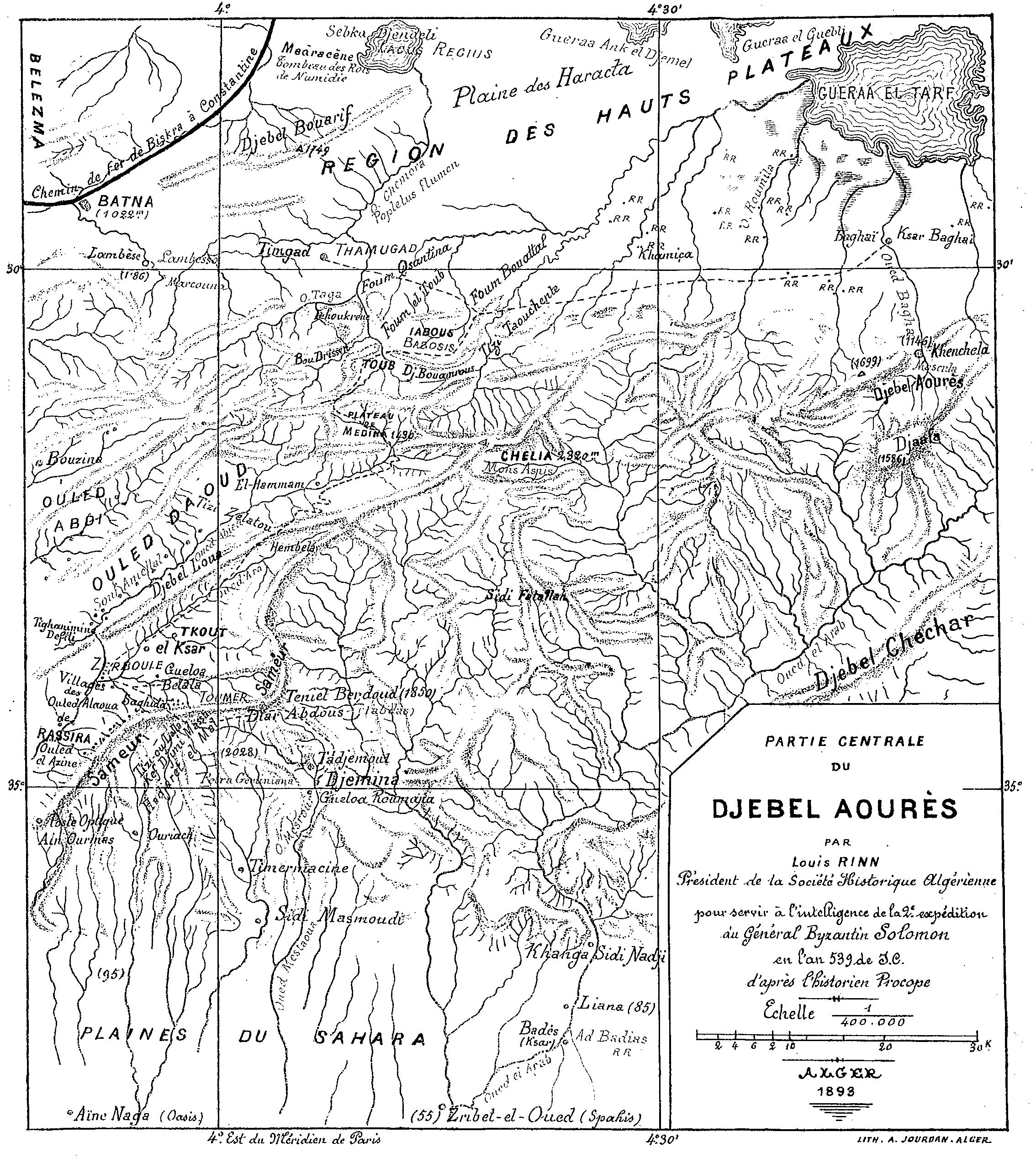 Ancient Map of Aoures Mont from Luis Rinn, drawn 1893